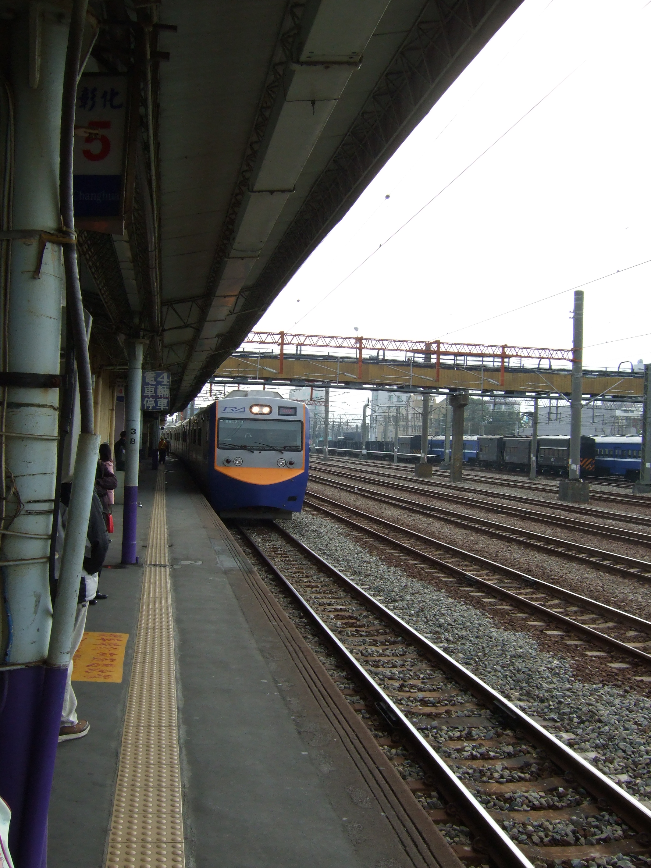 TRA EMU712 approaching Changhua Station.